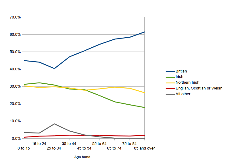 The proportion stating a given National Identity in each age band in the 2011 census in Northern Ireland.